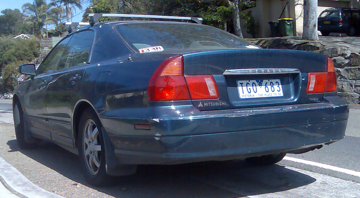 1997 Mitsubishi Verada (KE) Ei sedan. Photographed in New South Wales, Australia. Vehicle registration enquiry results Jurisdiction Victoria Registration TGO683 Chassis code 6MMKE8H42VT001947 Engine code 6G74M036308 Compliance date 1997-03 Year of manufacture 1997